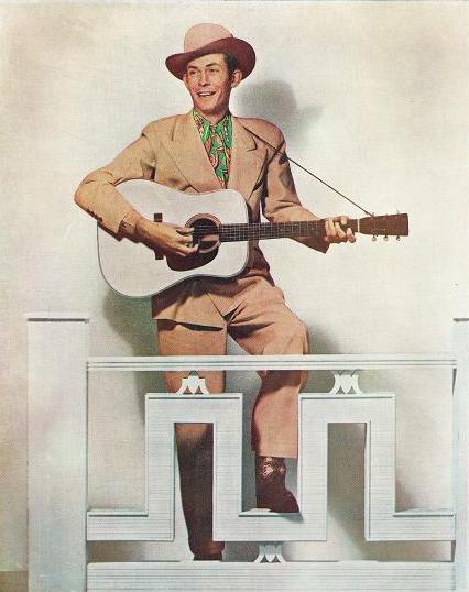 Hank Williams' MGM promotional picture, taken in 1951